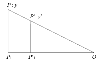 Cylindrical projection